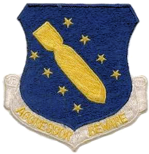 Emblem of the 44th Bombardment Wing (1950s)